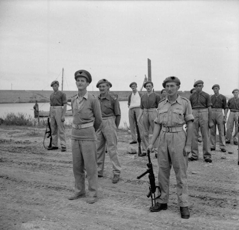 Members of 2 SAS on parade for an inspection by General Montgomery, following their successful participation in the capture, behind enemy lines, of the port of Termoli in Italy. On the left is Major E Scratchley DSO, MC, commanding the SAS detachment. Additional: On the right is Captain Roy Farran holding a German Schmeisser sub-machine-gun (Source for Additional: Julian Thompson, The Imperial War Museum: War Behind Enemy Lines).